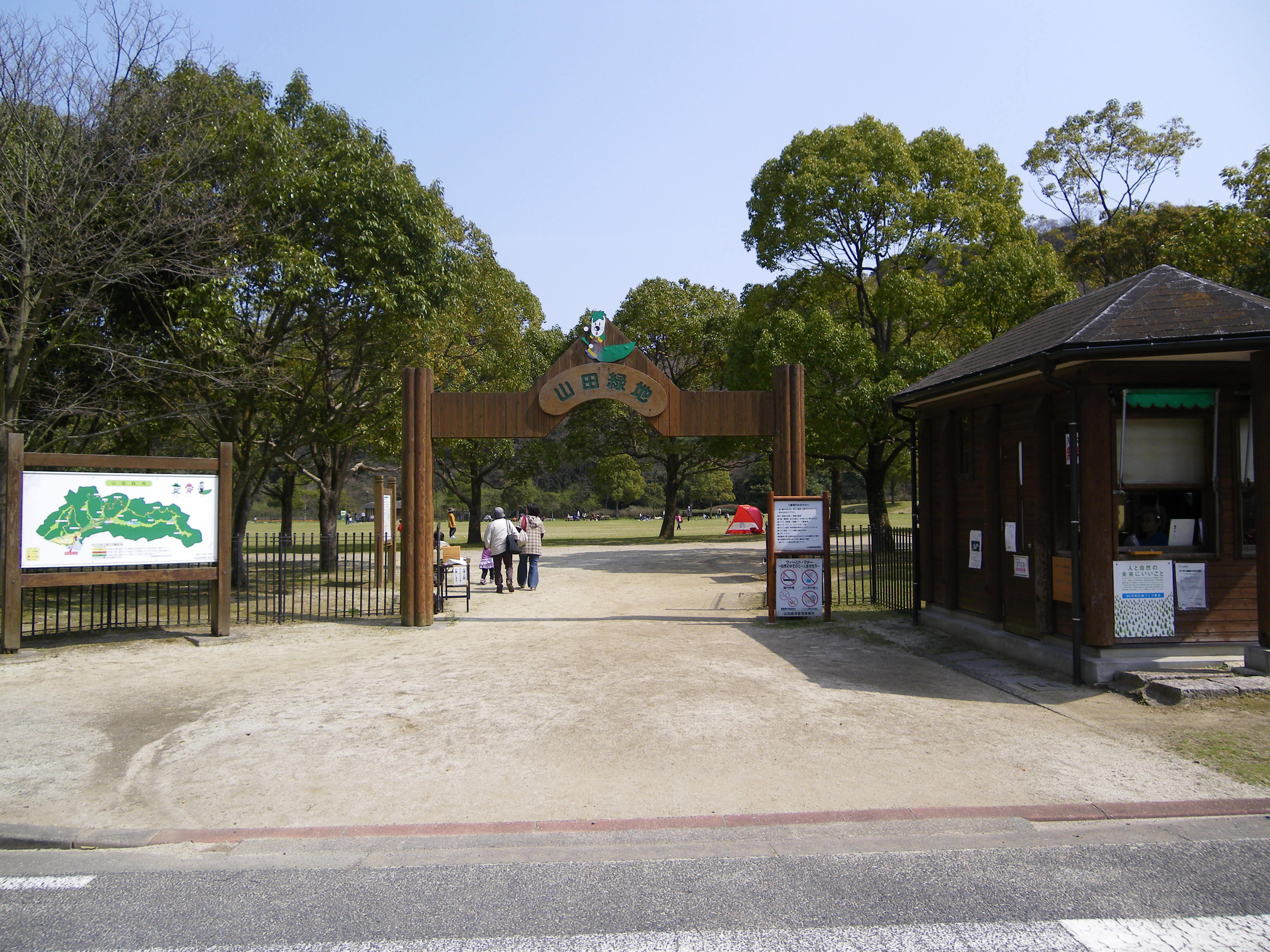 Yamada Green Zone entrance